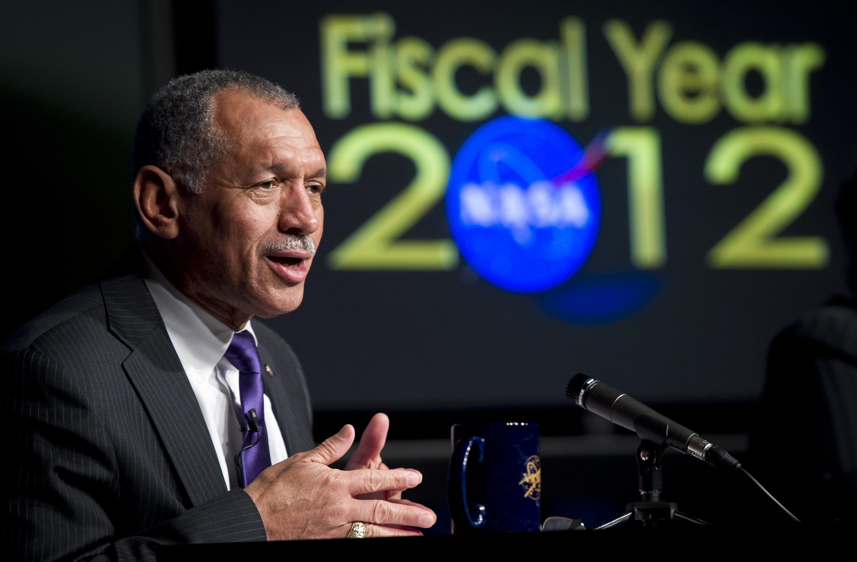 NASA Administrator Charles Bolden responds to a reporter's question during an overview briefing on NASA's fiscal year 2012 budget at NASA Headquarters in Washington.